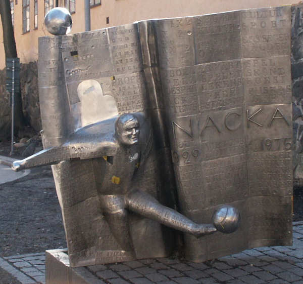 Nacka Skoglund memorial by Olle Adrian at Nackas Hörna, Stockholm, Sweden.